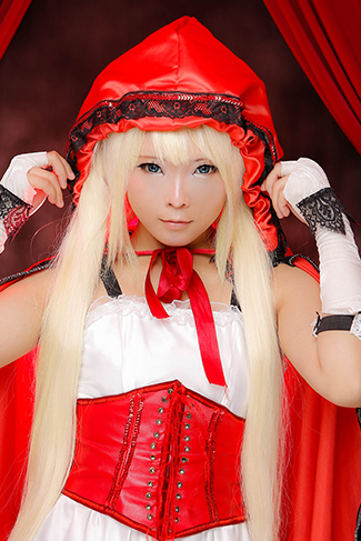 Yukitora Keiji as Marie Rose from Dead or Alive 5 Ultimate.